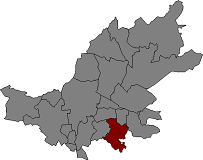 Location of Vilabella in Alt Camp